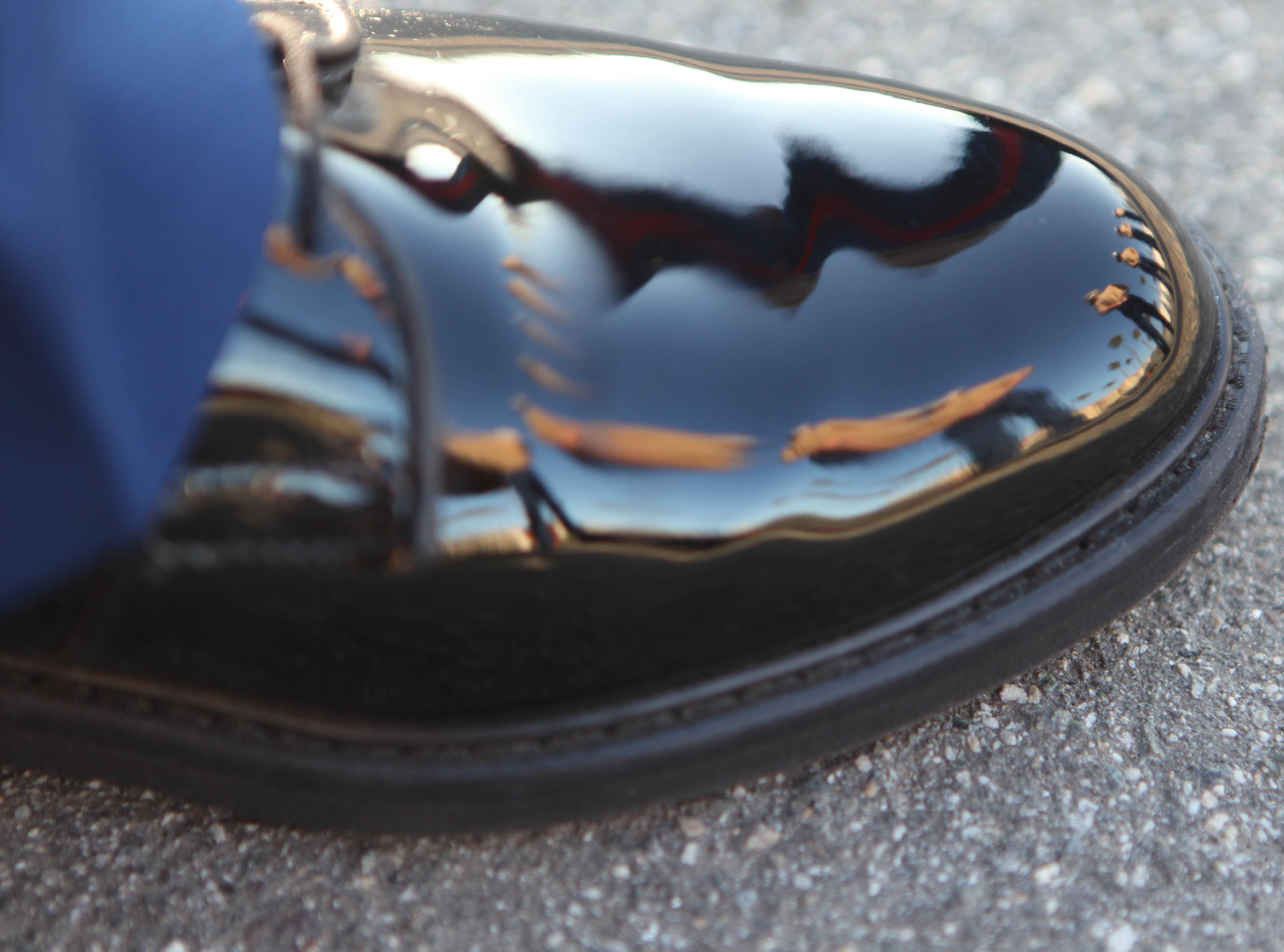 A patent-leather shoe reflects Marines with the 11th Marine Expeditionary Unit at a dress blue "D" uniform inspection here Sept. 14. The inspection was the unit's second official examination of uniforms in the last four weeks as the Marines prepare for the 2010 Fleet Week event in San Francisco Oct. 7-12.